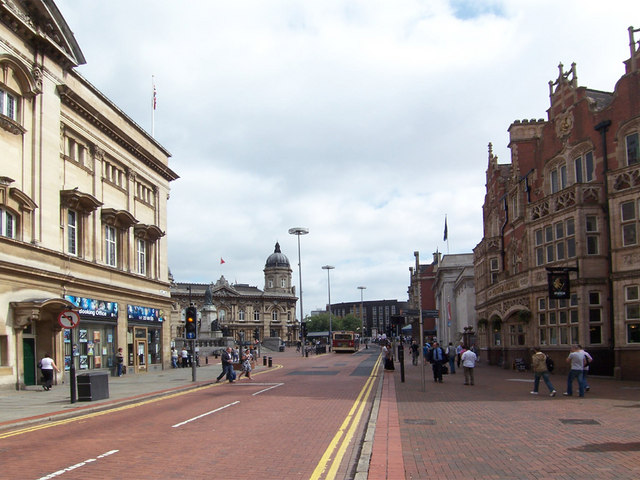 Hull Town Centre Picture taken from the eastern end of Carr Lane looking into Victoria Square. City Hall on the left, Punch Hotel and Ferens Art Gallery to the right. The building with the domed tower is the Hull Maritime Museum (former Dock Office).